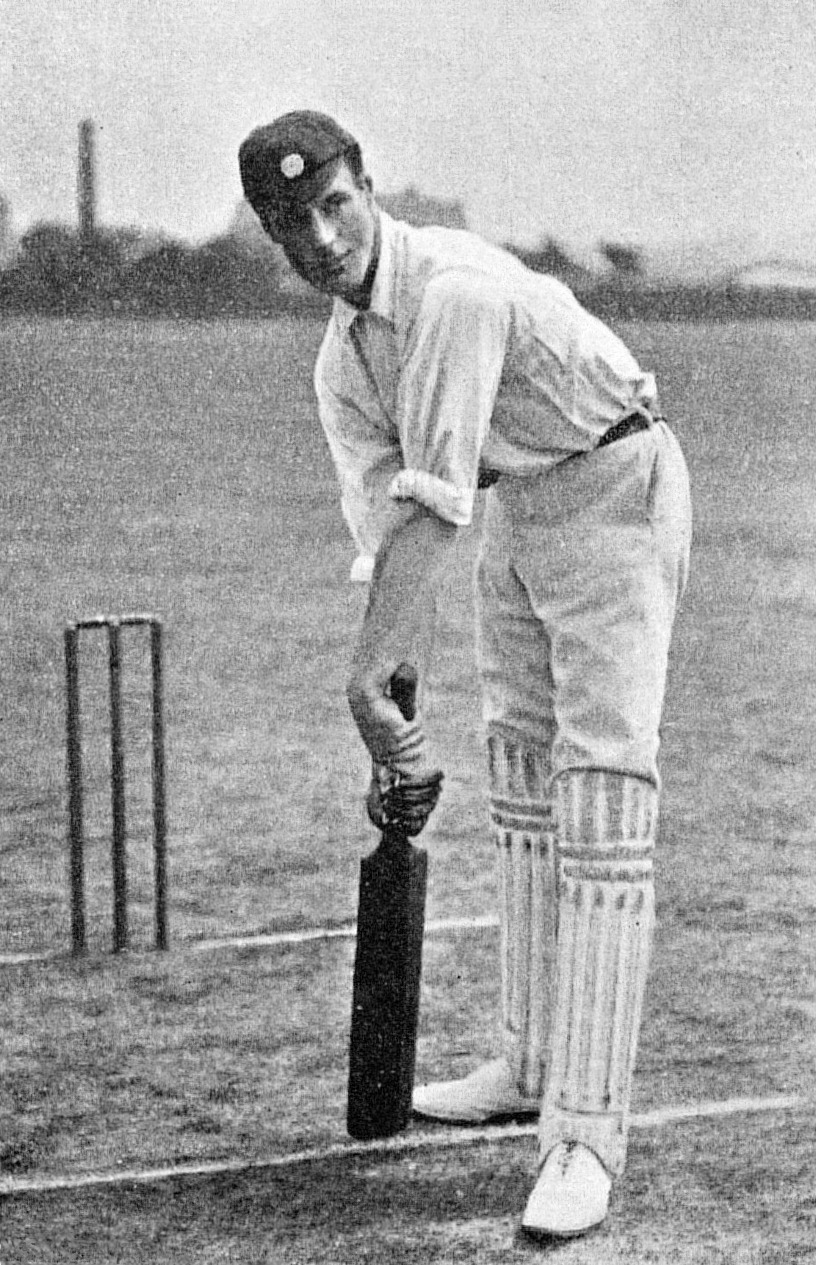 Scan of Cricketer Francis Lacey